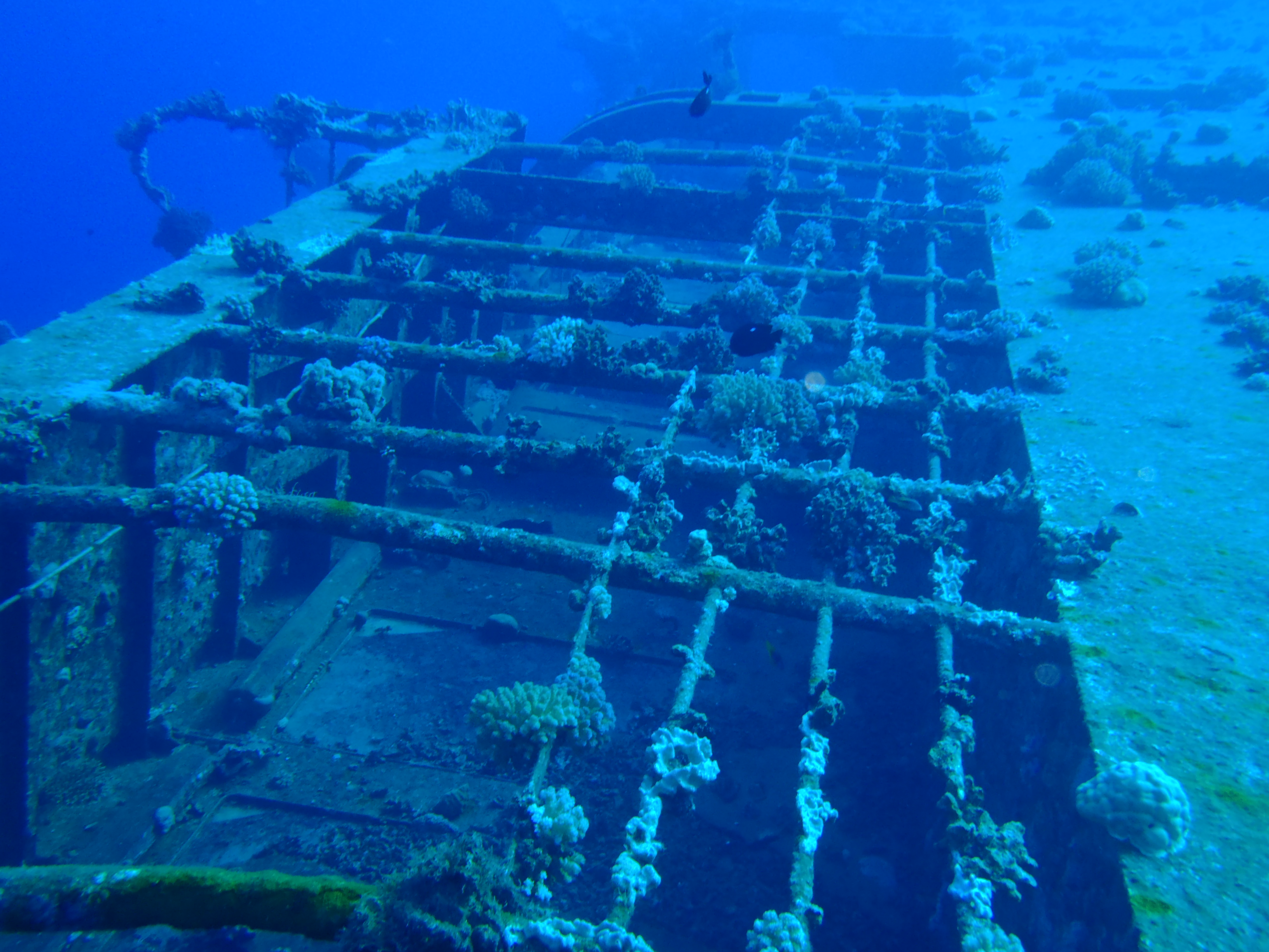 Wrack of the MV Salem Express, Read Sea, Egypt Superstructures in 16m depth.